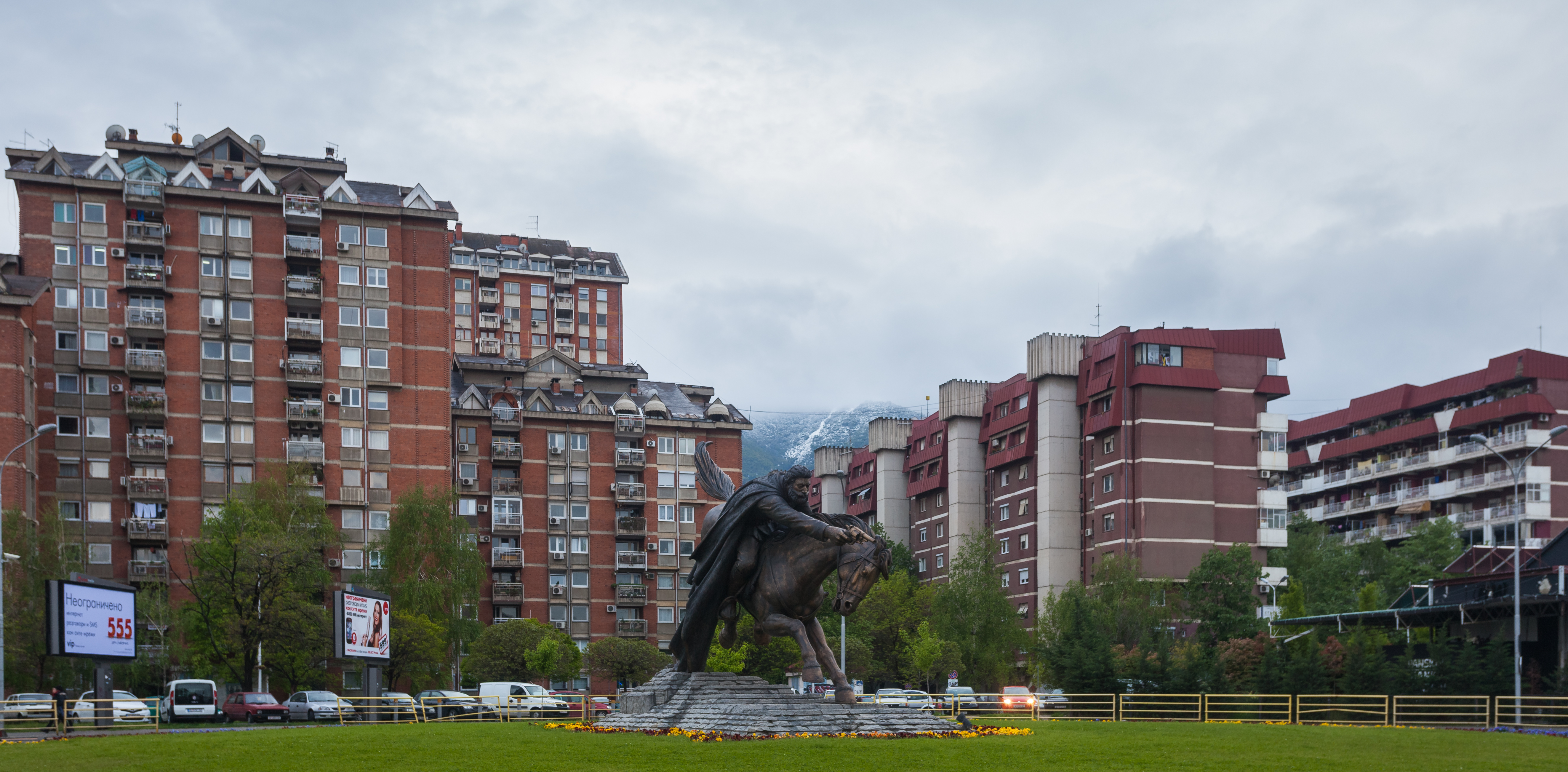 Monument of Vasil Cakalarov, Skopje, Macedonia